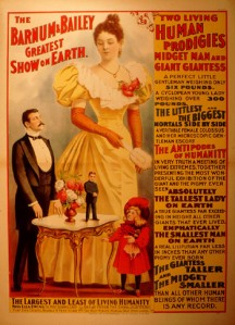 This is an image of a turn of the 20th century circus flyer used to promote Ella Ewing, considered the worlds tallest woman of her era. She died in 1913. This flyer was created and published before then, and certainly well before 1923, thus is considered in the public domain under U.S. laws. The purpose of its use on Wikipedia is to illustrate how the subject of the article and her extreme height was promoted for profit in a manner the average reader can comprehend.